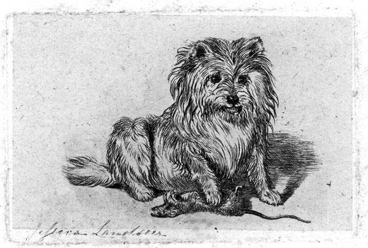 Vixen 54 x 82 mm Etching by Jessica Landseer, after Edwin Landseer. With a pencil signature. On laid india paper. Jessica’s pet terrier dog, having just despatched a rat.